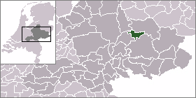 Location of Zutphen